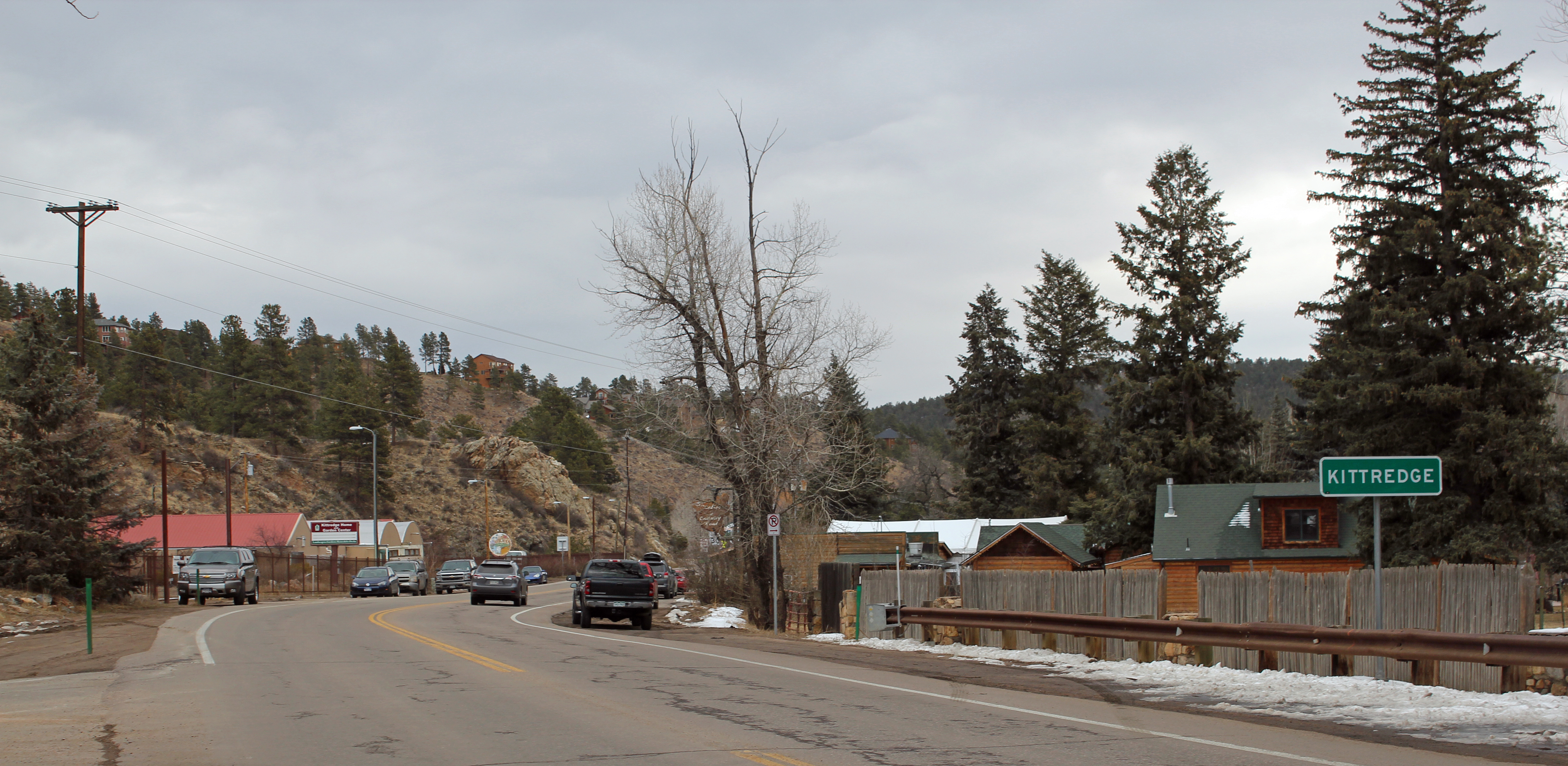 Kittredge, Colorado. The view is along Colorado State Highway 74.